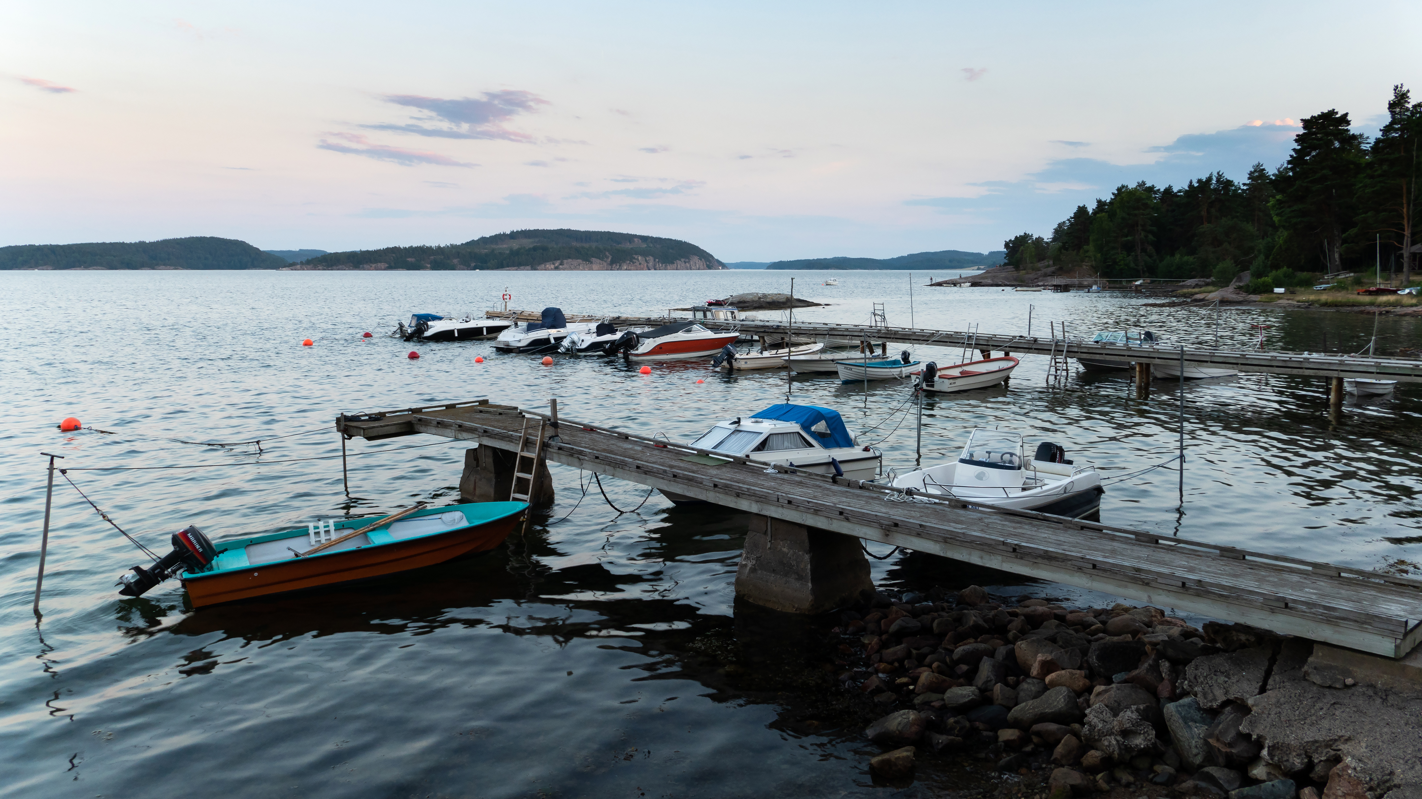 Evening in Barkedal Harbor, Lysekil Municipality, Sweden. Photo was taken while waiting for the Lunar eclipse of 2018 July 27. In the background is Stora Bornö in the middle of the Gullmarn fjord.